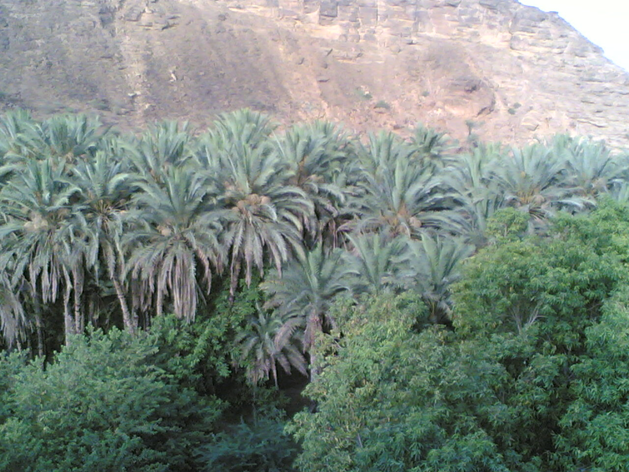 palm in algail